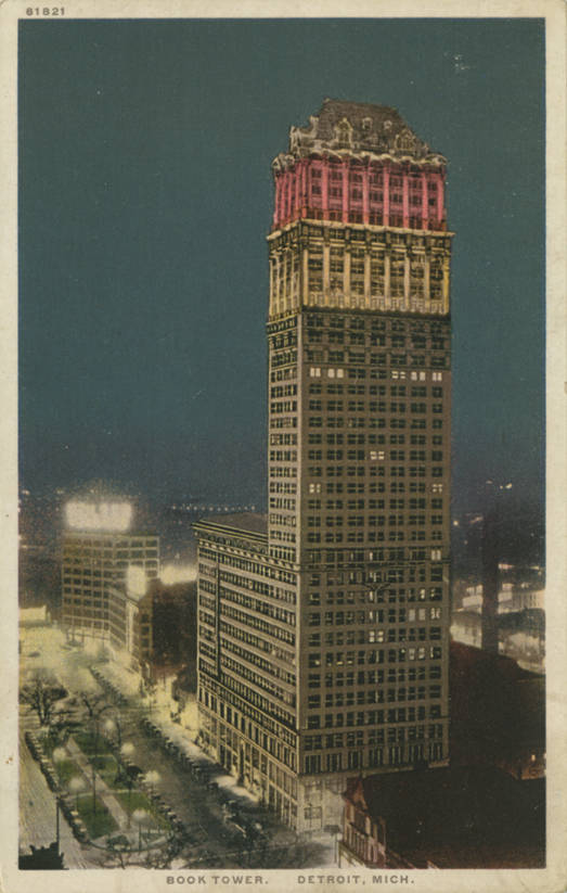 Book Tower